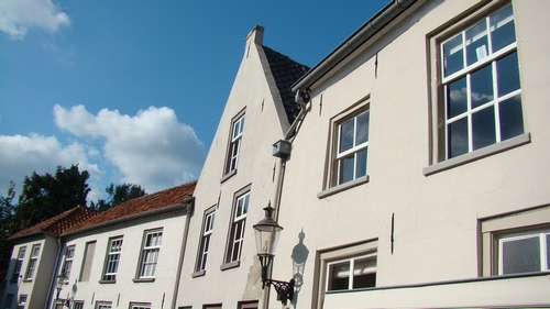 Ravenstein, Netherlands